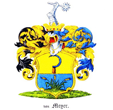 Coat of arms of Meyer family